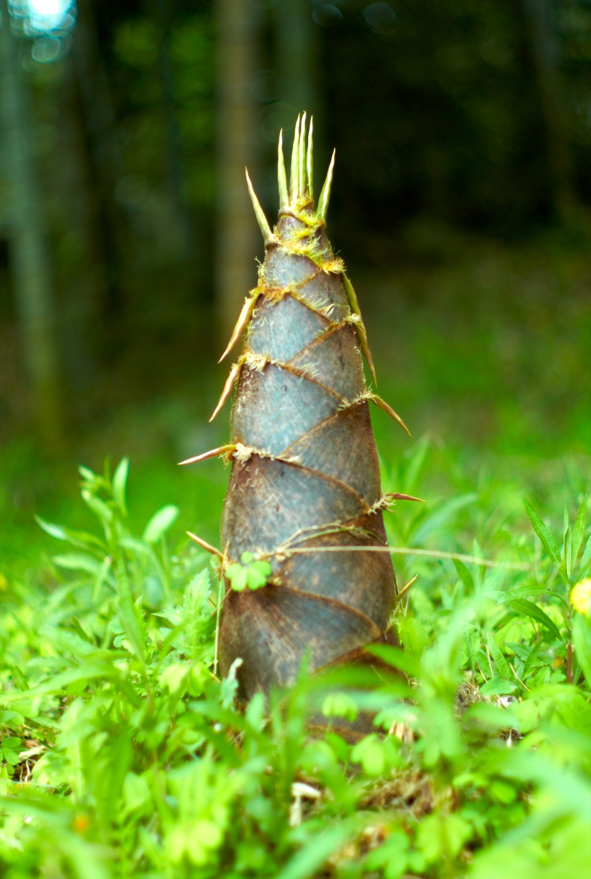 Bamboo sprout. Proud and too big to eat.